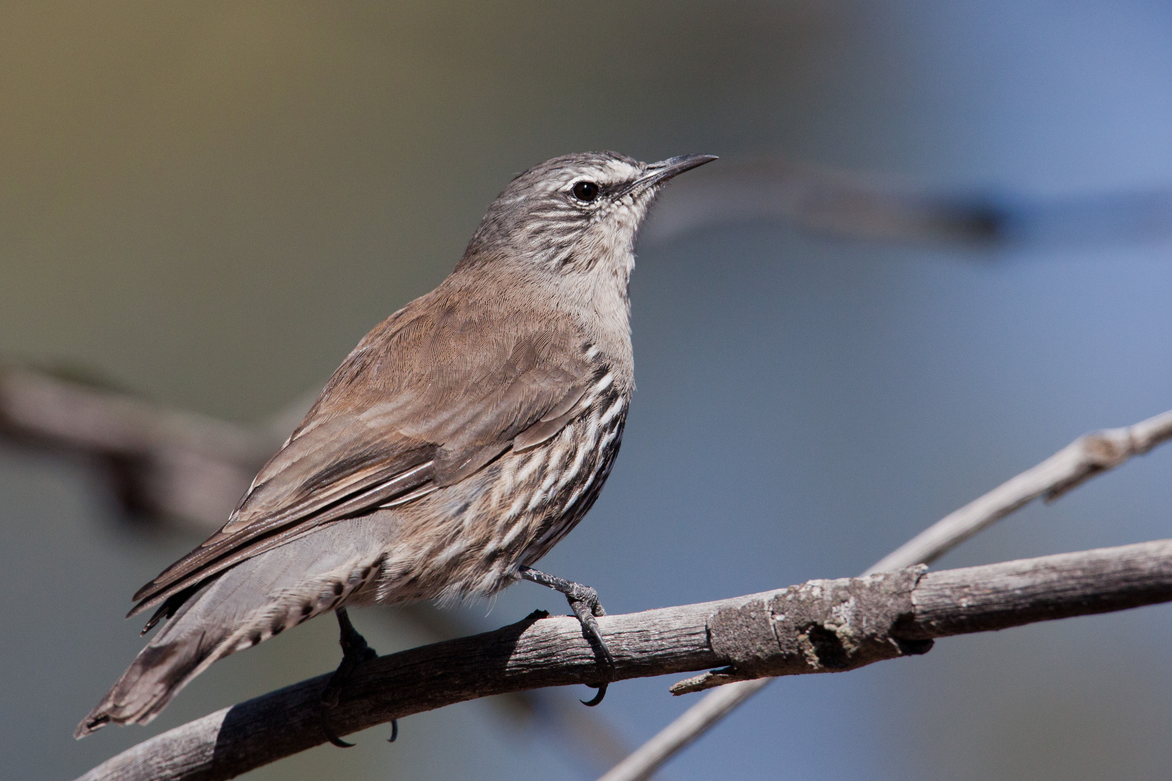 My first shot of this species. There were quite a few at Gluepot, especially in (Allo)Casuarina woodlands. I probably should remove some background clutter... maybe later!!!!